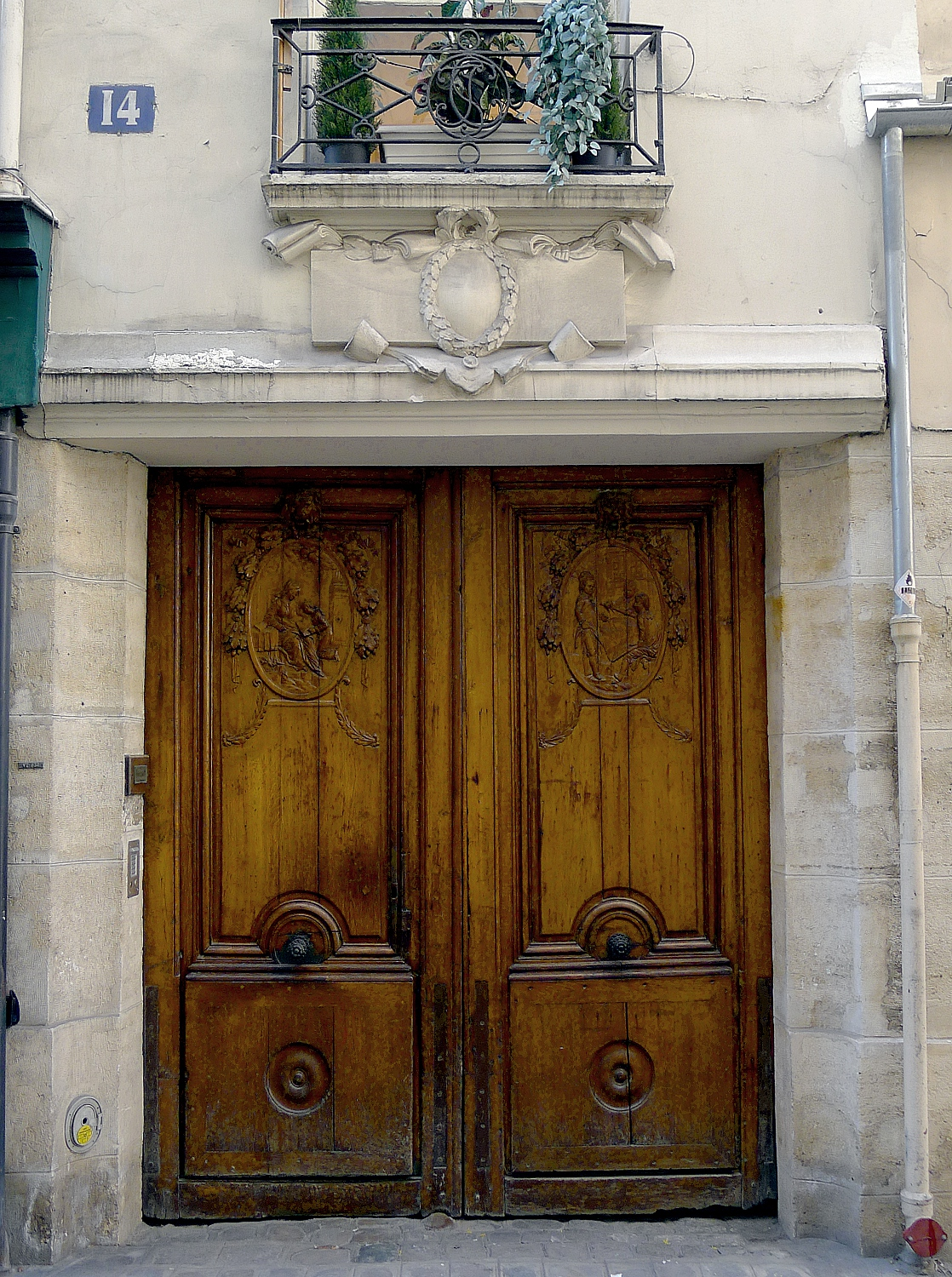 Servandoni street - Paris